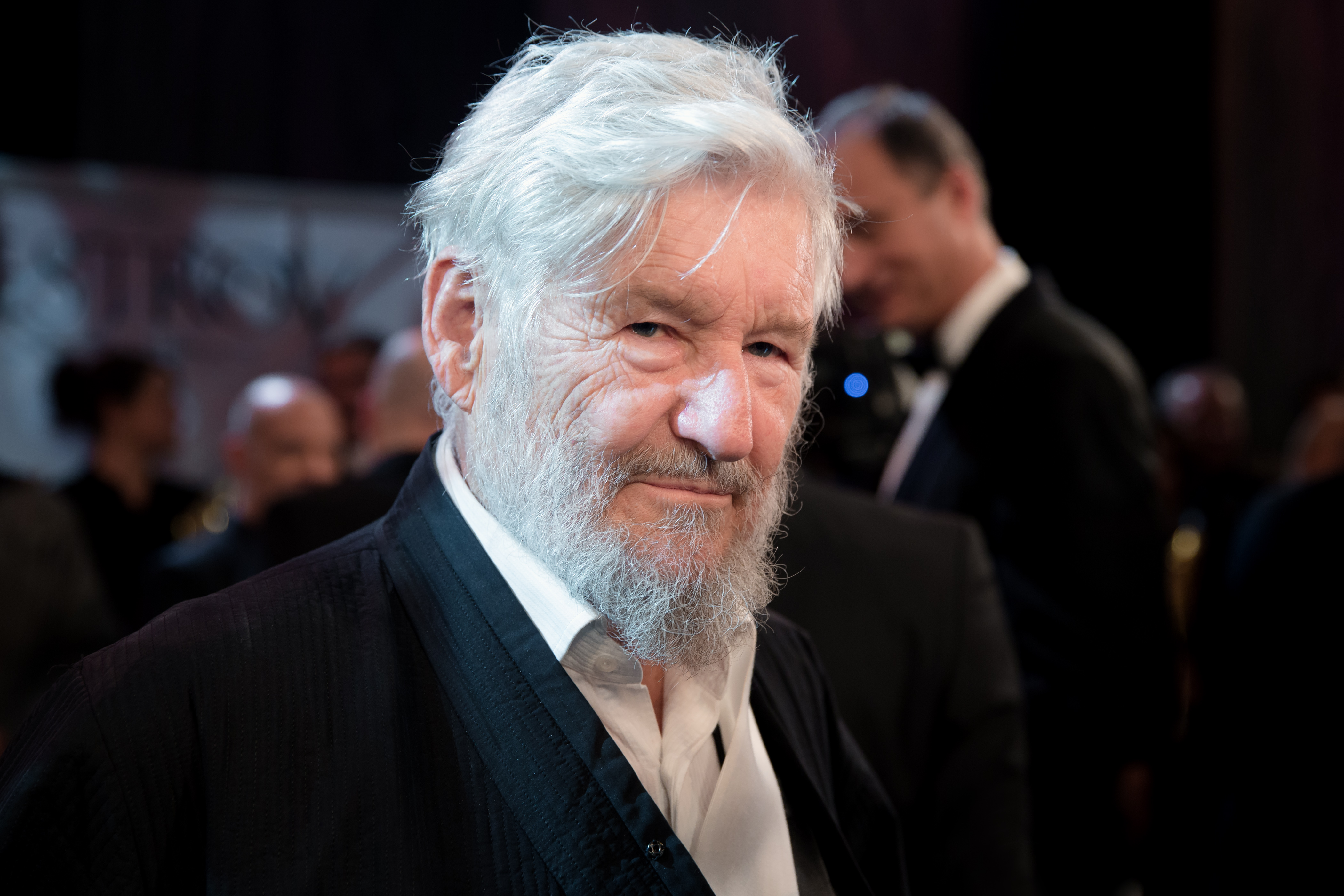 Achim Freyer, Nestroy Theatre Awards 2015 (Ronacher, Vienna, Austria).